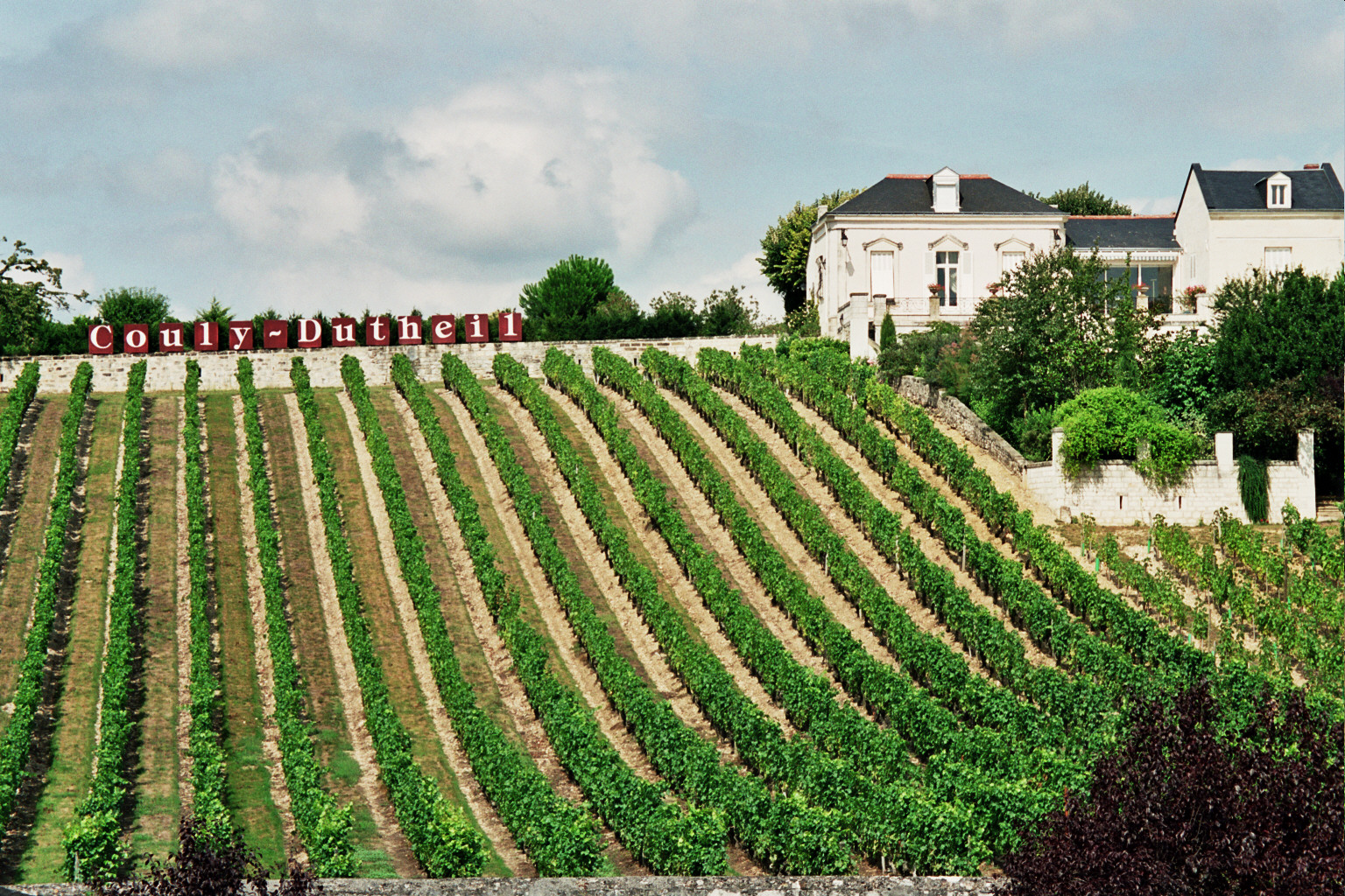 Photo of a vineyard in the Loire Valley, France.